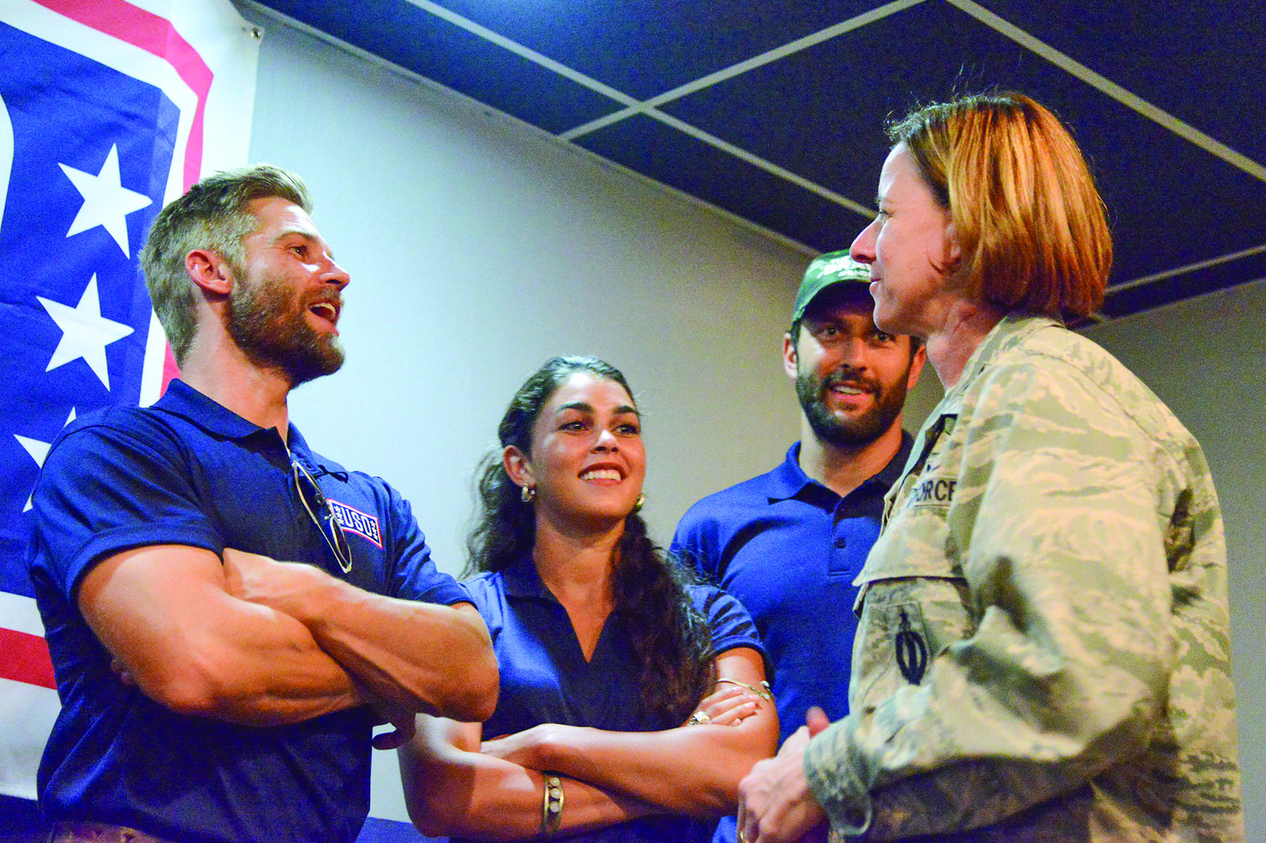 From left, “The Brave” cast members Mike Vogel, Natacha Karam and Noah Mills speak with 377th Air Base Wing Vice Commander Col. Dawn Nickell on Sept. 8 at the Mountain View Club.